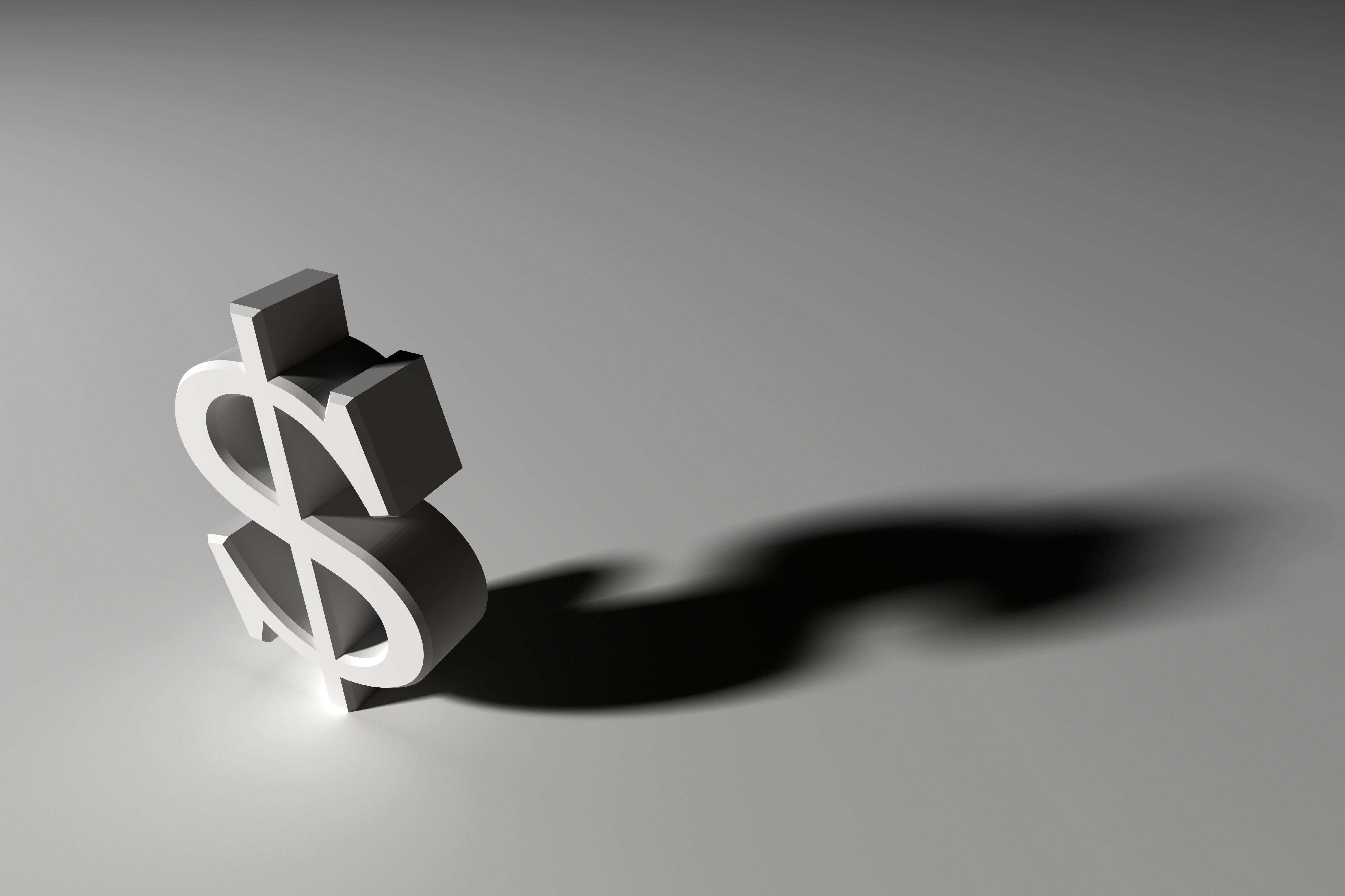 dollar,symbol,money,shadow,3d,render